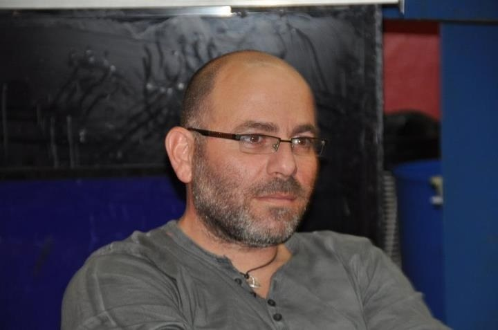 Efi Shoshani, Israeli musician